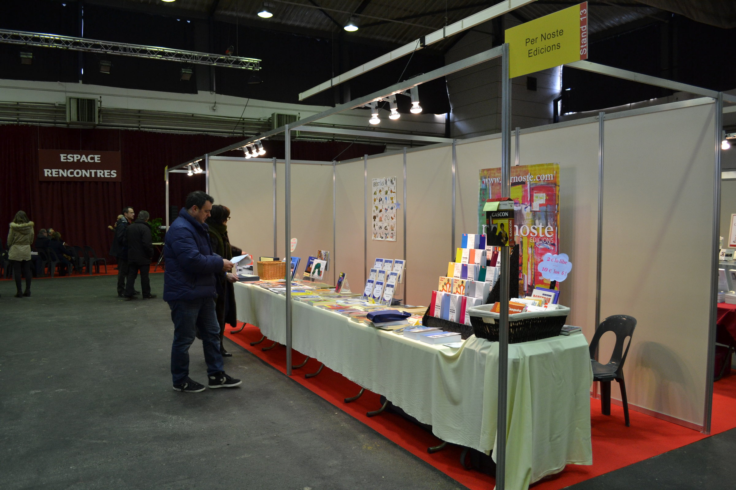 Per Noste edition's stand during "Le Livre en Béarn" book fair in 2015 in Pau.